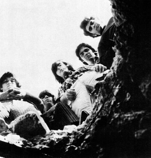 Trade ad for Count Five's single "You Must Believe Me".To better adapt it to his respective Wikipedia article, the ad was cropped and cleaned in a graphics editing program. The original can be viewed at the source below.